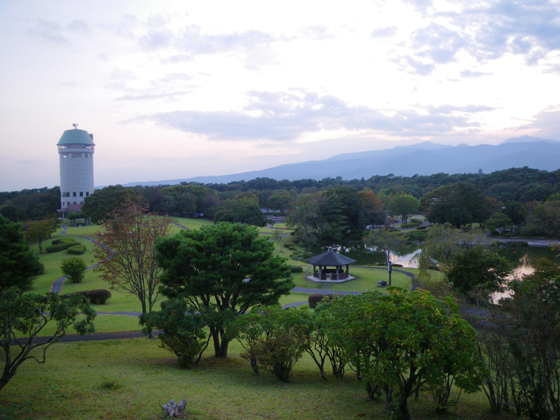 Nasunogahara park, and Mount Takahara. Nasushiobara, Tochigi, Japan.